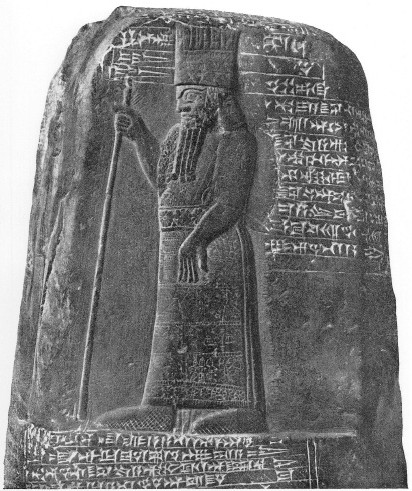 Kudurru of the time of Nabu-mukin-apli (No. 90835)